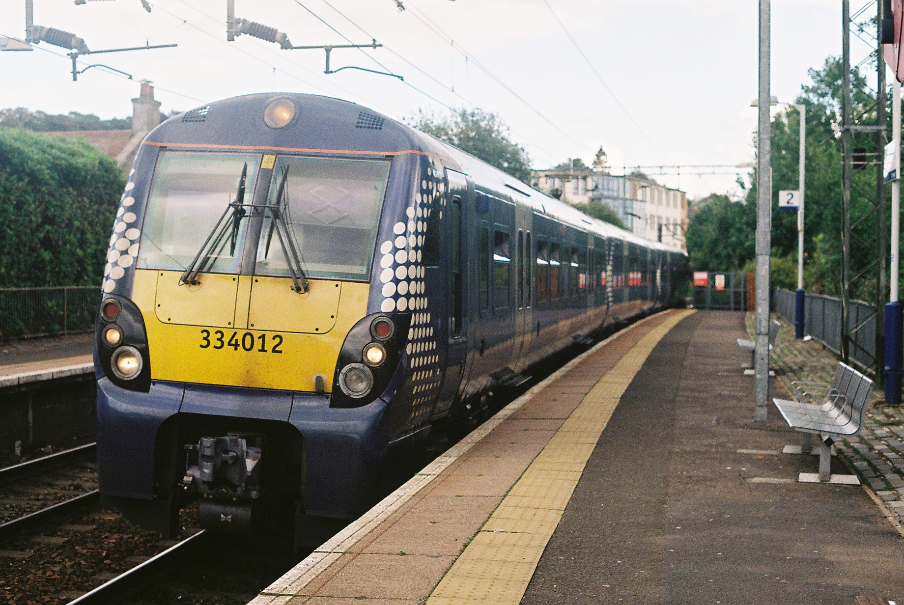 A class 334 pulls into Westerton station in the new Transport Scotland Saltire livery.